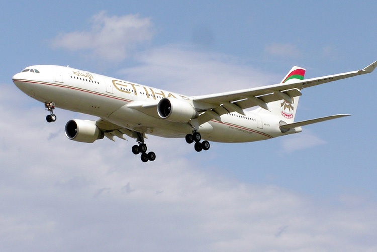 Etihad Airways Airbus A330-200 (A6-EYB) landing at London (Heathrow) Airport in July 2004